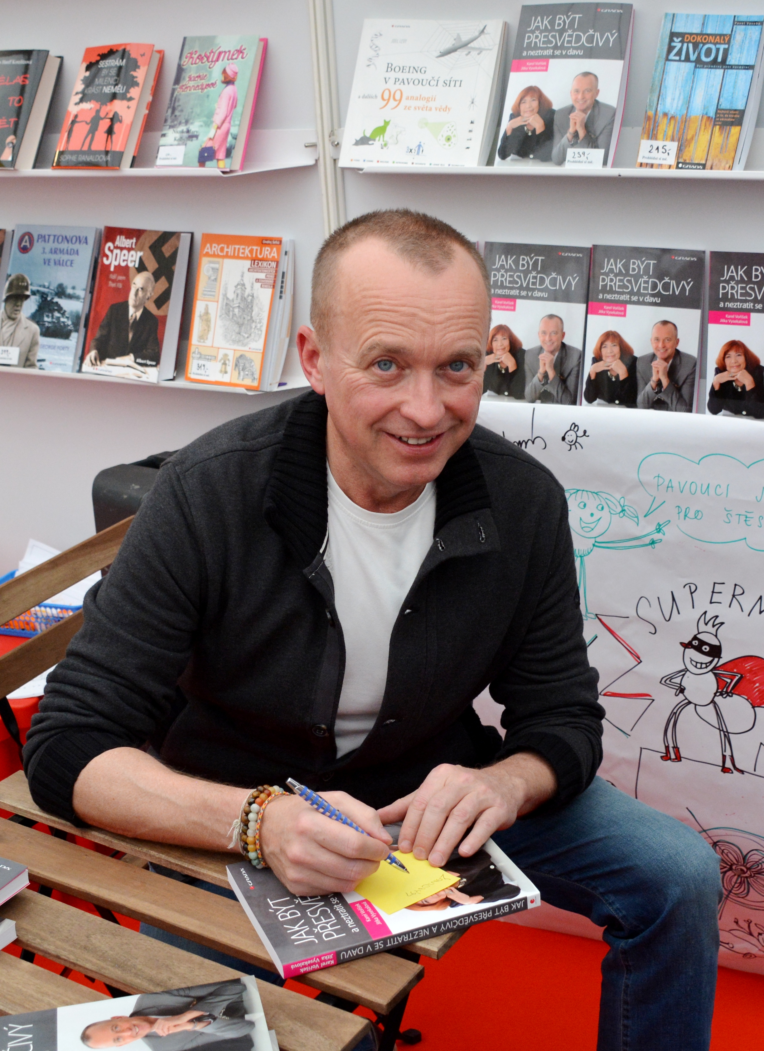 Karel Voříšek, Czech TV presenter